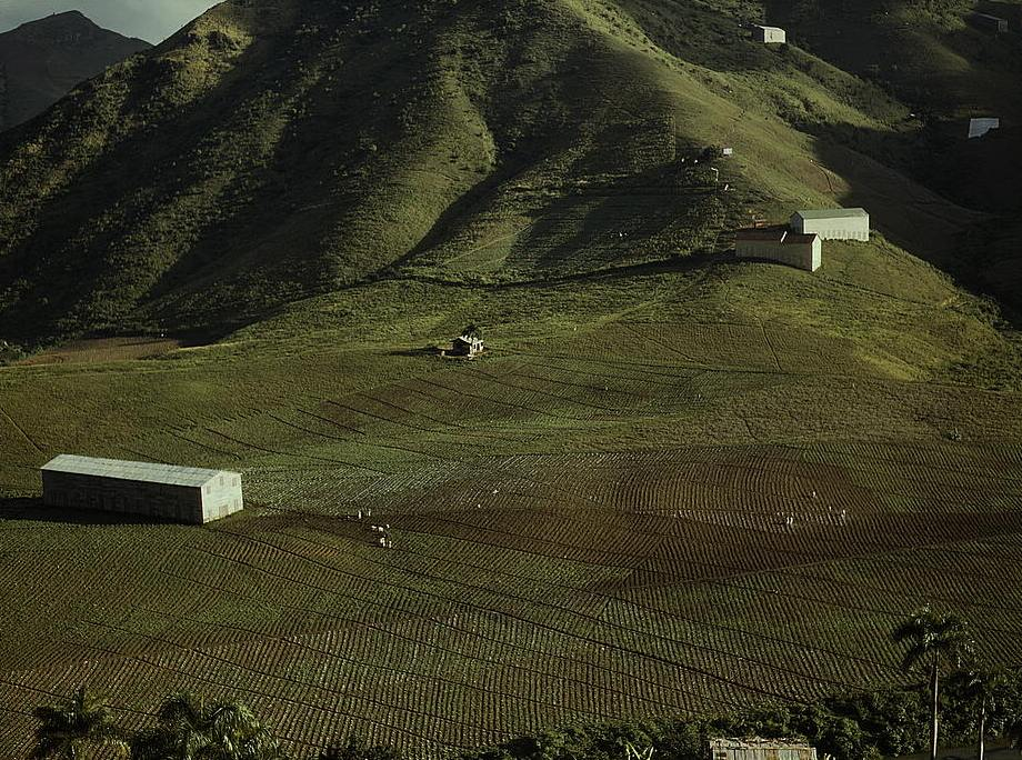 Cultivating tobacco at the [Puerto Rico Reconstruction Administration] experimental area, vicinity of Cayey, Puerto Rico